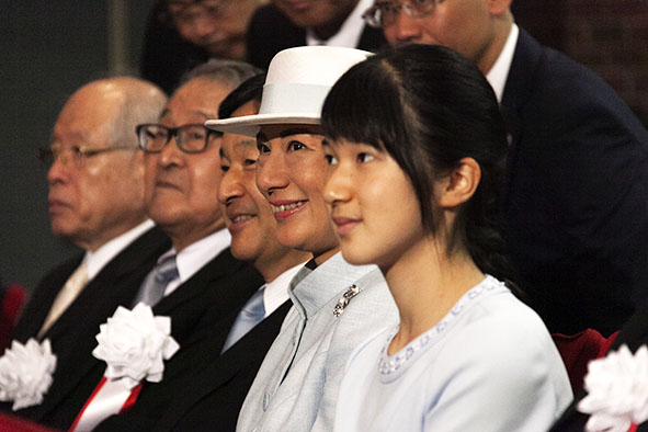 Crown Prince Naruhito, Crown Princess Masako and Princess Aiko attended the Convention for Thinking about the Water at the Science Museum in Chiyoda Ward, Tōkyō Metropolis on August 1, 2016.